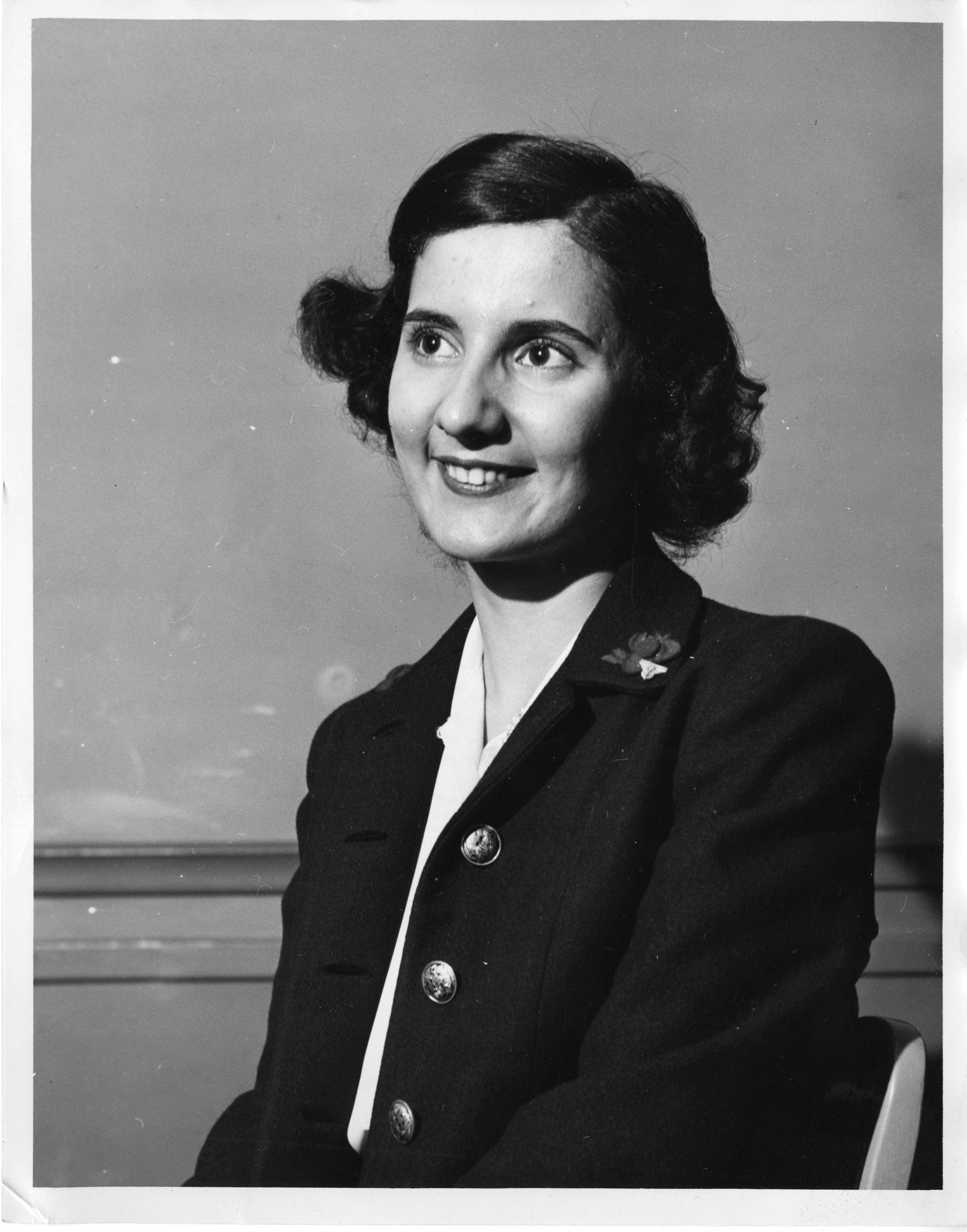 Anne Hagopian (1928?-2008) was the 1944 winner of the top $2,400 scholarship awarded to girls in the third annual Science Talent Search and later graduated from Radcliffe College. Anne Hagopian (Van Buren) became an eminent art historian